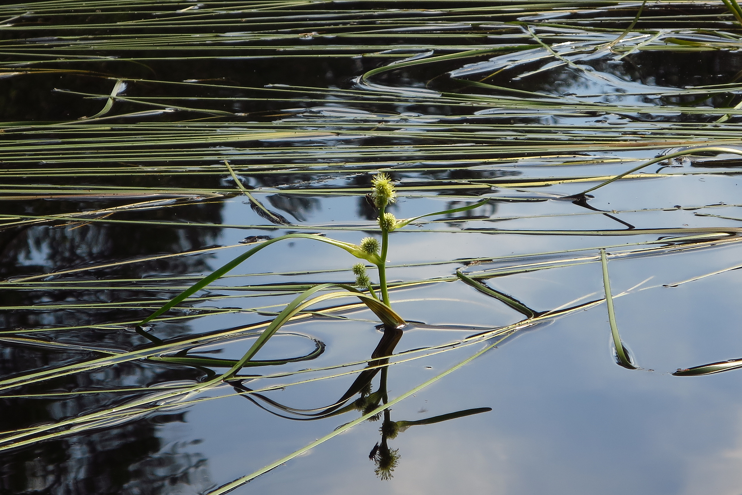 Ujuv jõgitakjas (Sparganium gramineum) Hüüdre järves